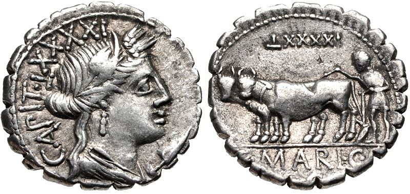 Roma, C. Marius C.f. Capito moneyer 81 BC. AR Serrate Denarius (19mm, 3.94 g, 6h). Rome mint. Wreathed and draped bust of Ceres right; LXXXXI at end of legend, knife below chin Husbandman with yoke of oxen ploughing left; LXXXXI above.